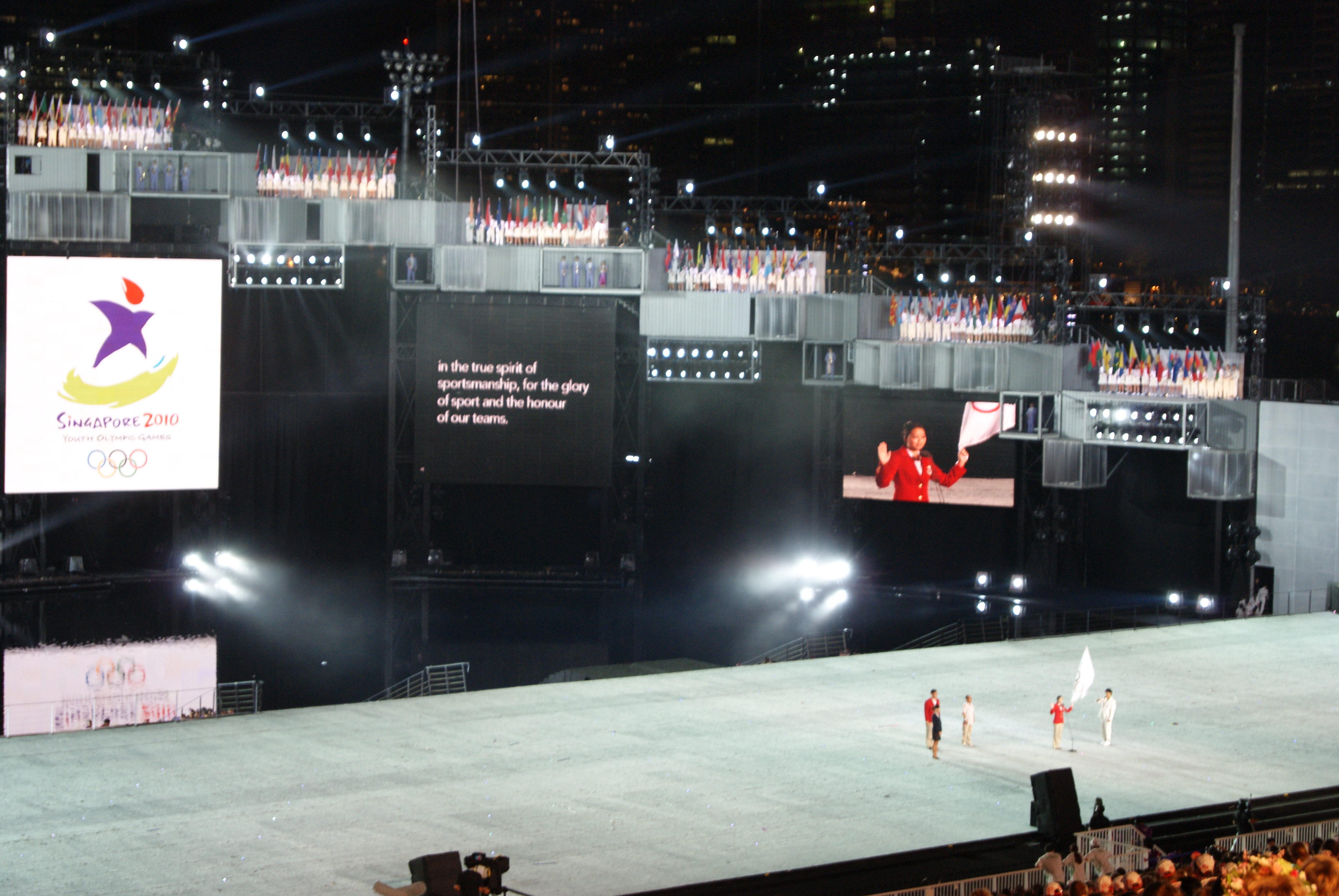 Caroline Chew takes the athletes' oath during the Olympic Protocol segment (Chapter 12) of the 2010 Summer Youth Olympics opening ceremony at The Float@Marina Bay, Singapore.